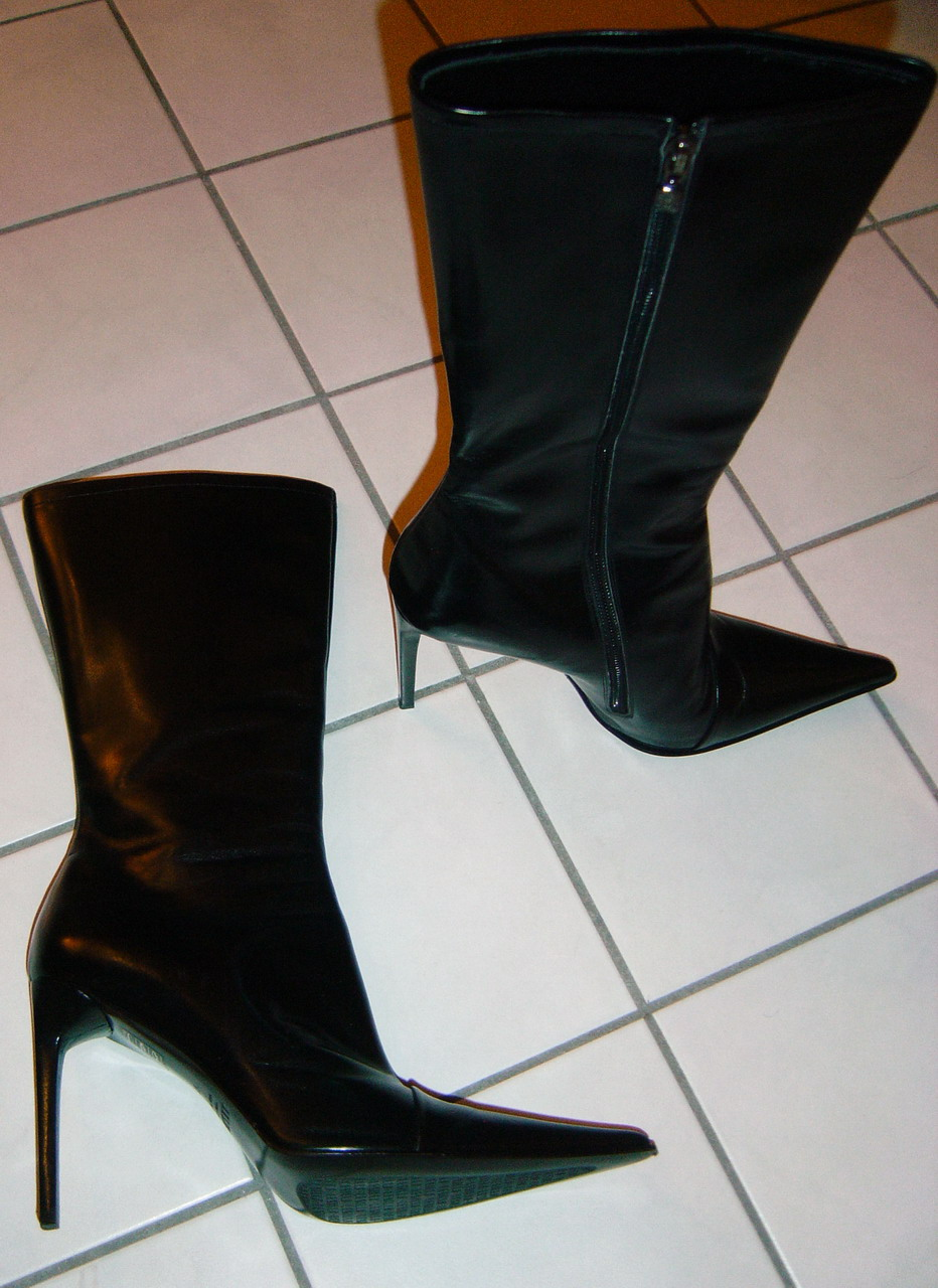 Kneehigh leather boots with high heel (Le Silla) Location: Germany